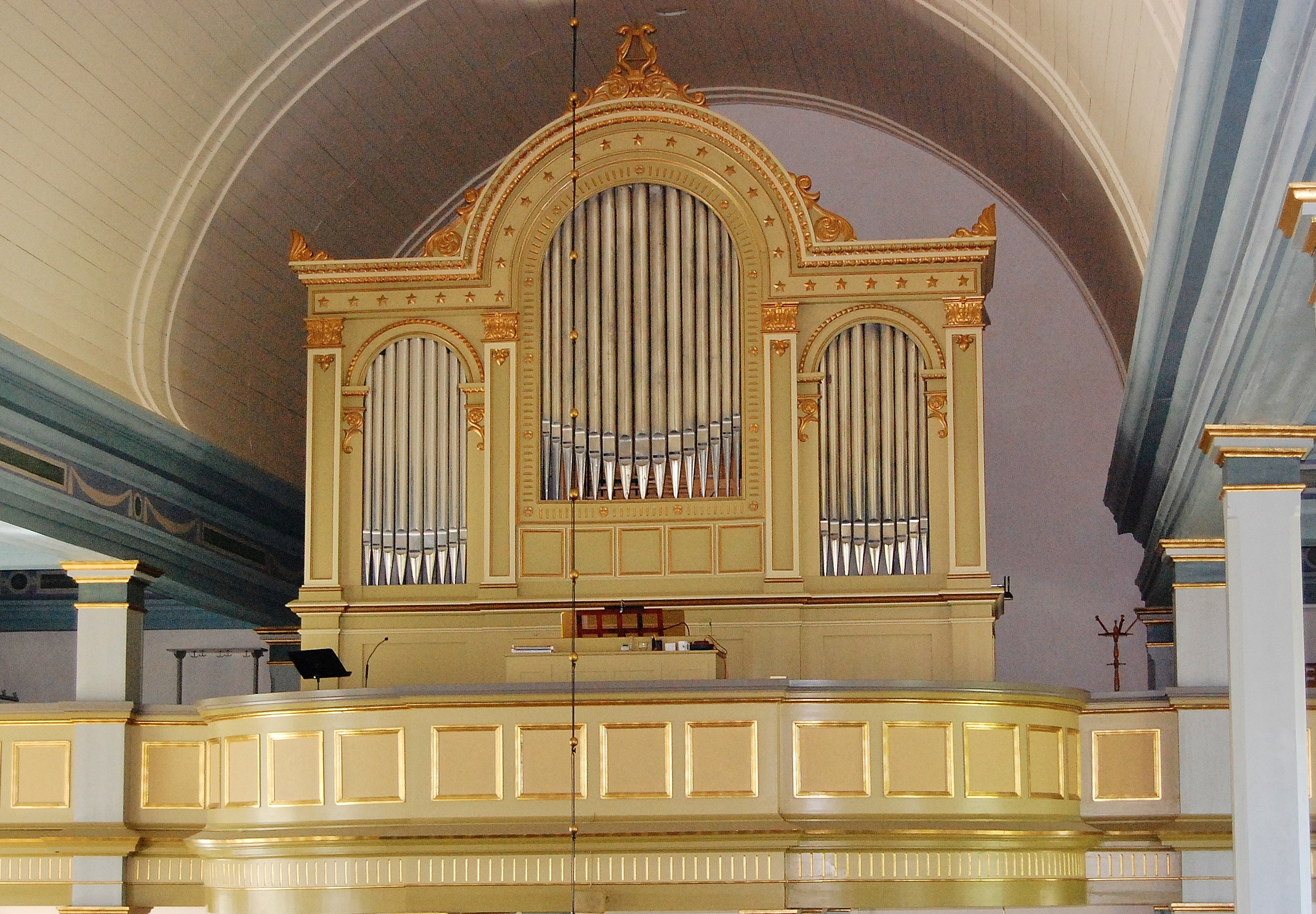 Älmeboda church.Organ.